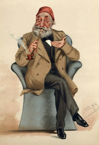 Caricature of the Ottoman Statesman Ahmet Şefik Mithat Pasha titled "The Turkish Constitution".